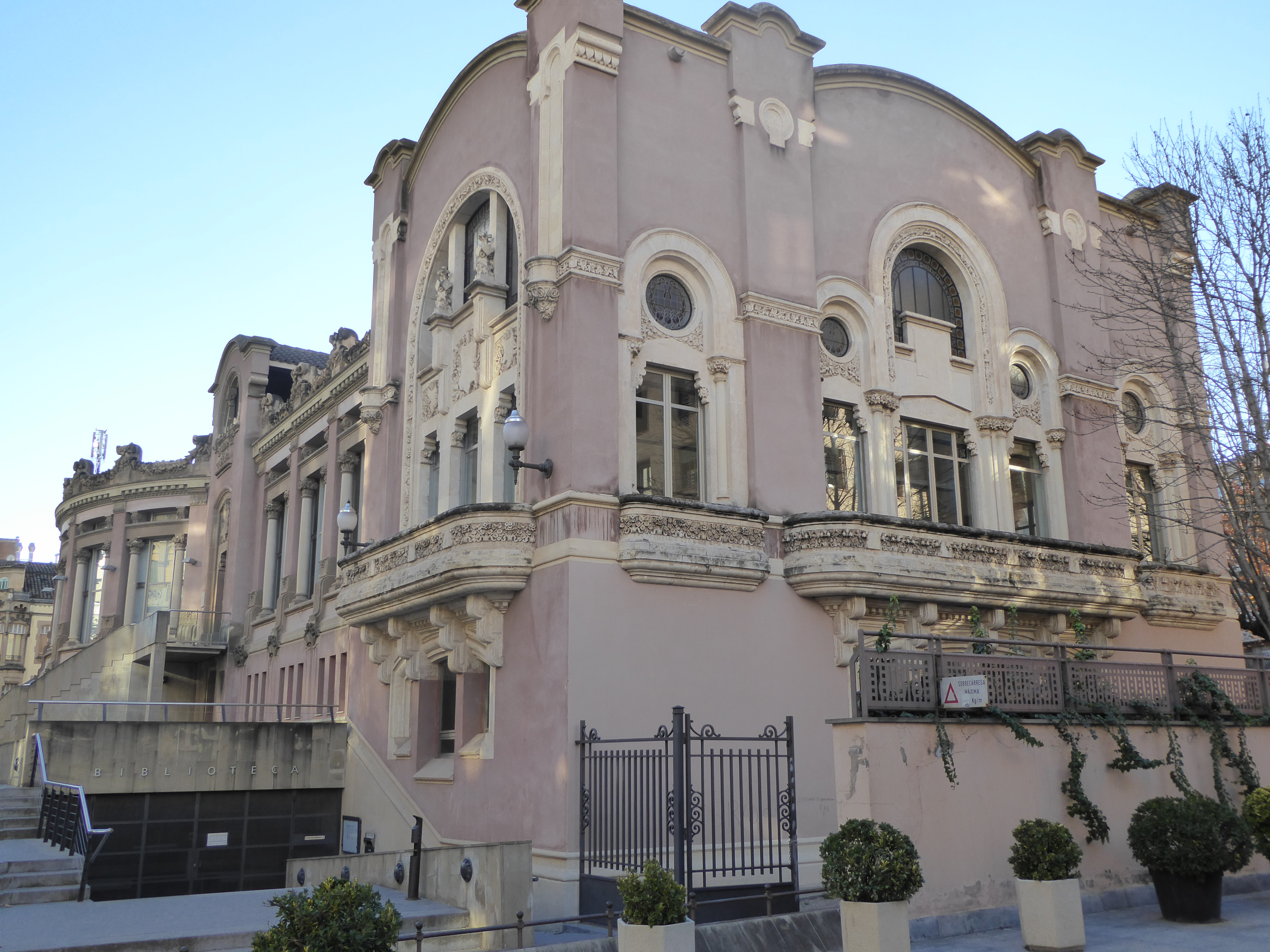 Casino de Manresa, Passeig Pere III, Manresa, province of Barcelona, Catalonia, December 2014